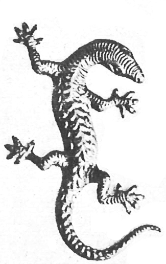 Extracted with tools in Photoshop editing software and rendered in Black and White for text ornamentation of literary or other works from Wrought Iron Ornaments (1928), J. G. Braun Co., Chicago IL, New York NY, (48 p., illus., 22, x 28 cm, trade catalog, made available on under Creative Commons license: Public Domain Mark 1.0)